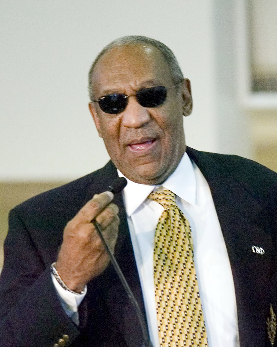 Bill Cosby (1937–) Alternative names William Henry Cosby, Jr.DescriptionAmerican performance artist, writer, author and activistDate of birth 12 July 1937 Location of birth Philadelphia, Pennsylvania Work period1962-presentWork location United States of AmericaAuthority control : Q213512 VIAF: 110901829 ISNI: 0000 0001 0788 0184 LCCN: n82052577 NAID: 10570342 NLA: 35432033 WorldCat creator QS:P170,Q213512 061003-N-0000K-001 Dr. William H. "Bill" Cosby speaks at Frederick Douglass High School during his visit to the school.